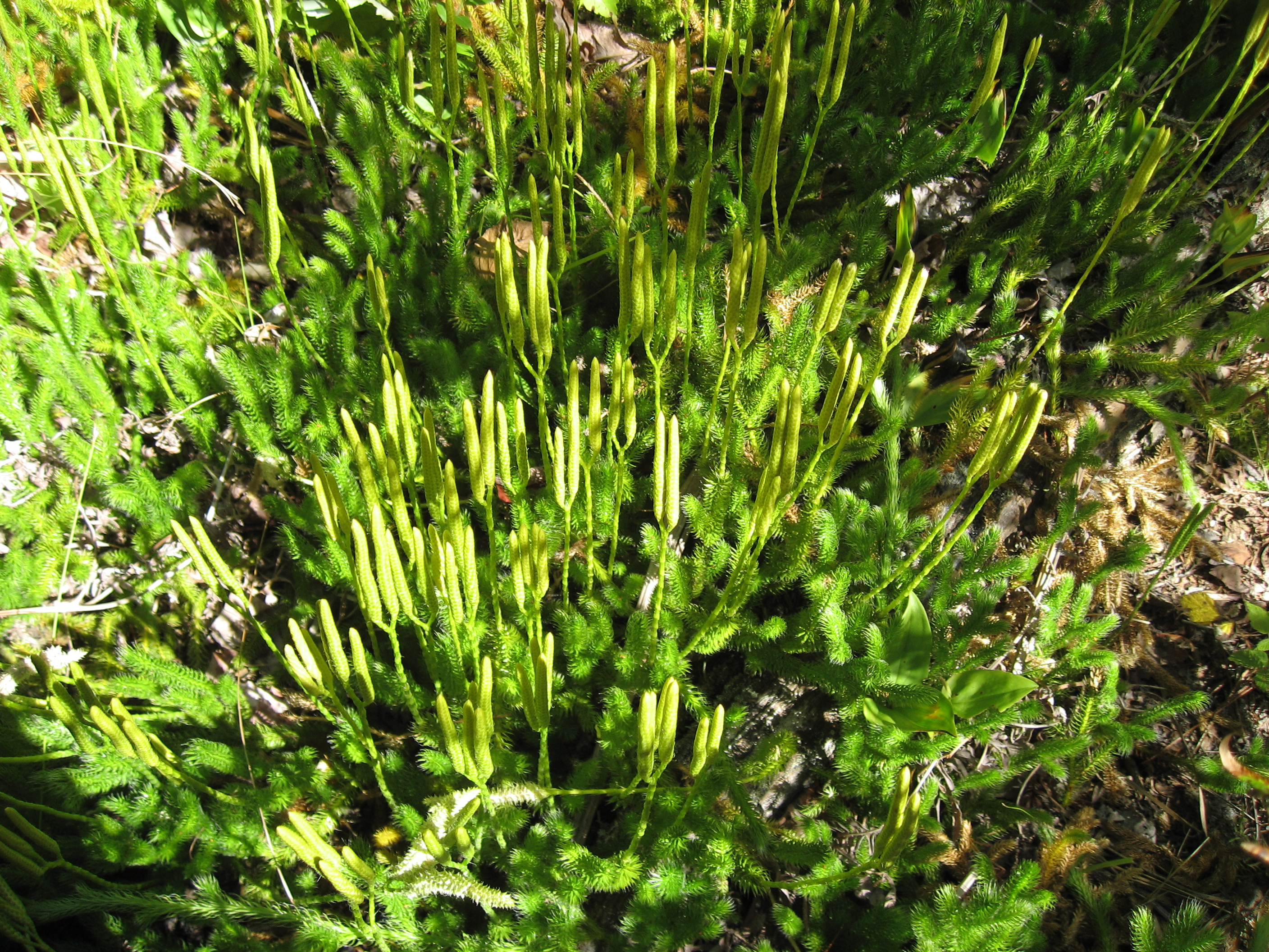 Stag's horn clubmoss (Lycopodium clavatum).